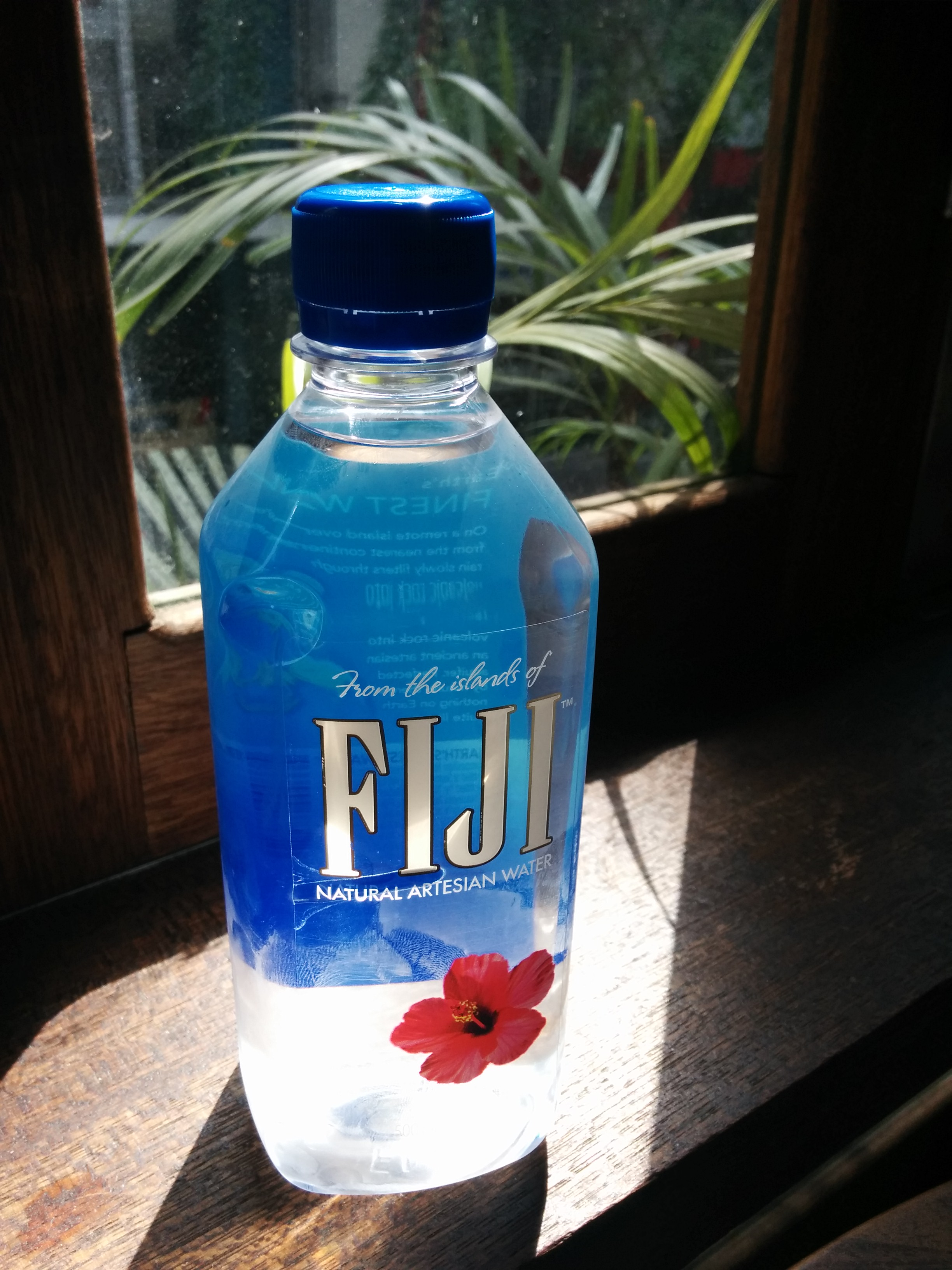 Natural artesian water. Marketed for Hong Kong and Singapore, bought in café in Malé